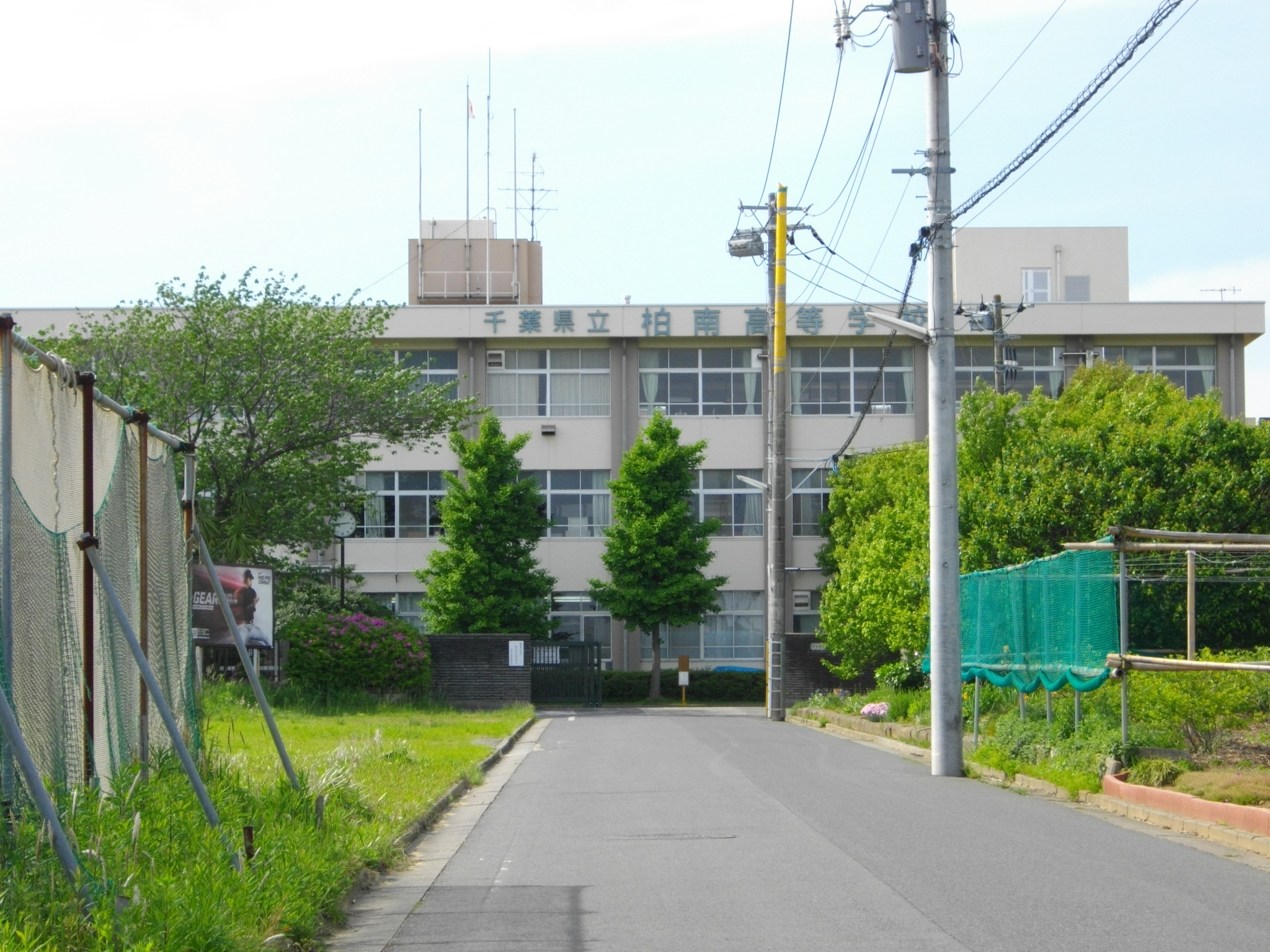 Kashiwa-Minami High School